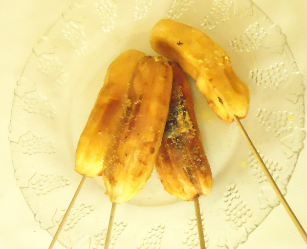 Ginaggang or Guinanggang from the Philippines. Grilled saba bananas with margarine and sugar.